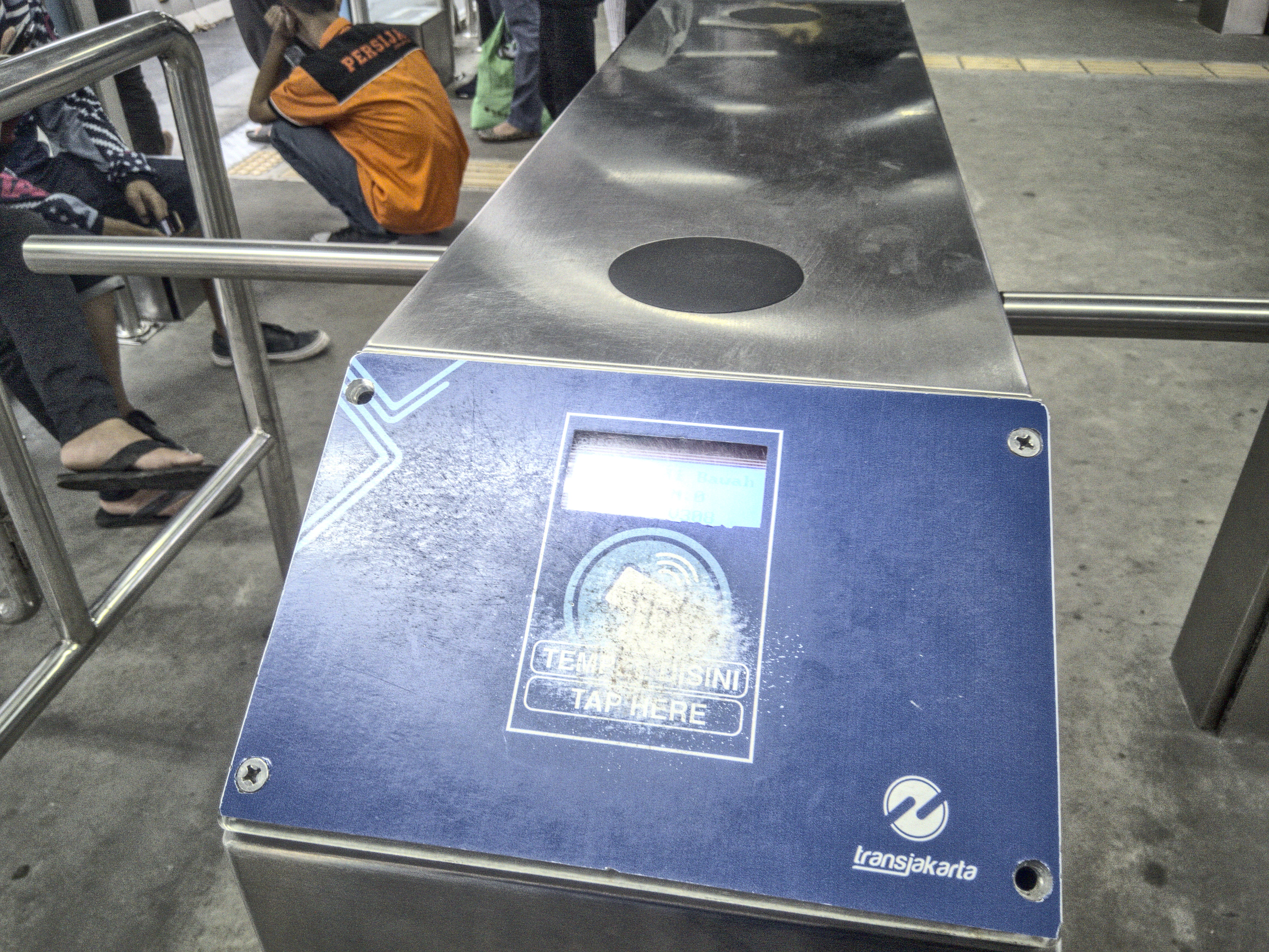 Barrier for TransJakarta's Bundaran Senayan station, passengers tap their payment card to enter the station